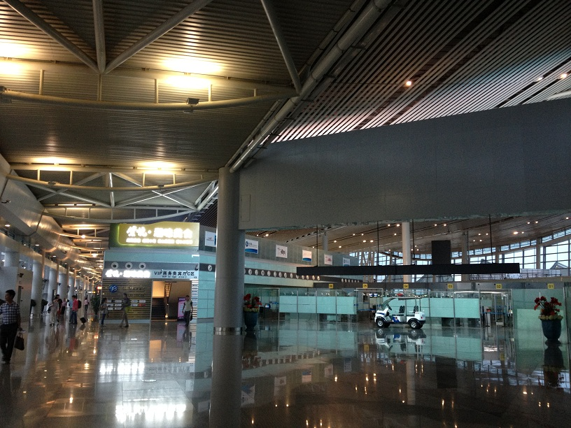 Hallway after the security checking border inside CSX terminal 2